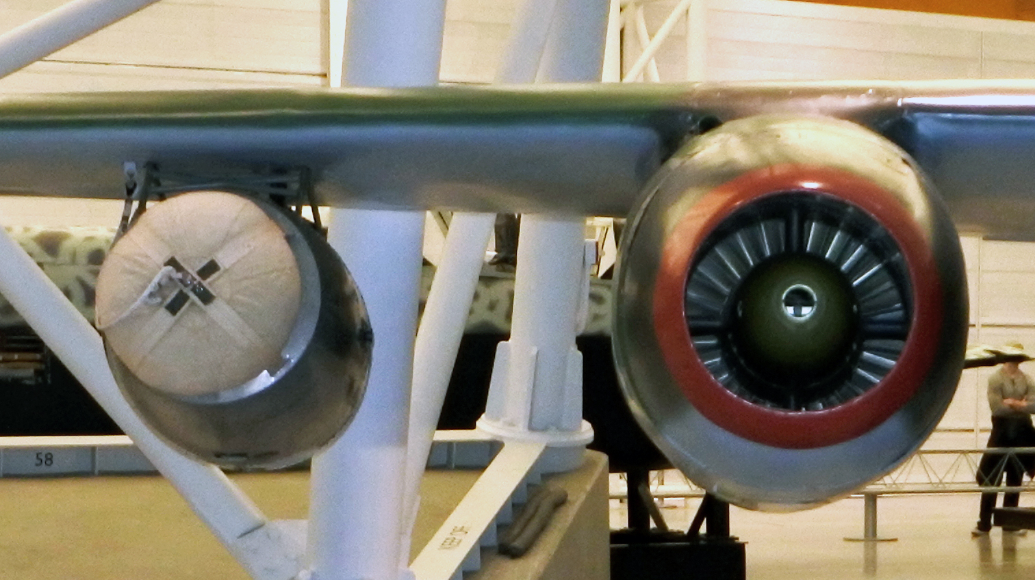 RATO (left) on starboard wing of Arado Ar 234 B-2 at the Steven F. Udvar-Hazy Center.